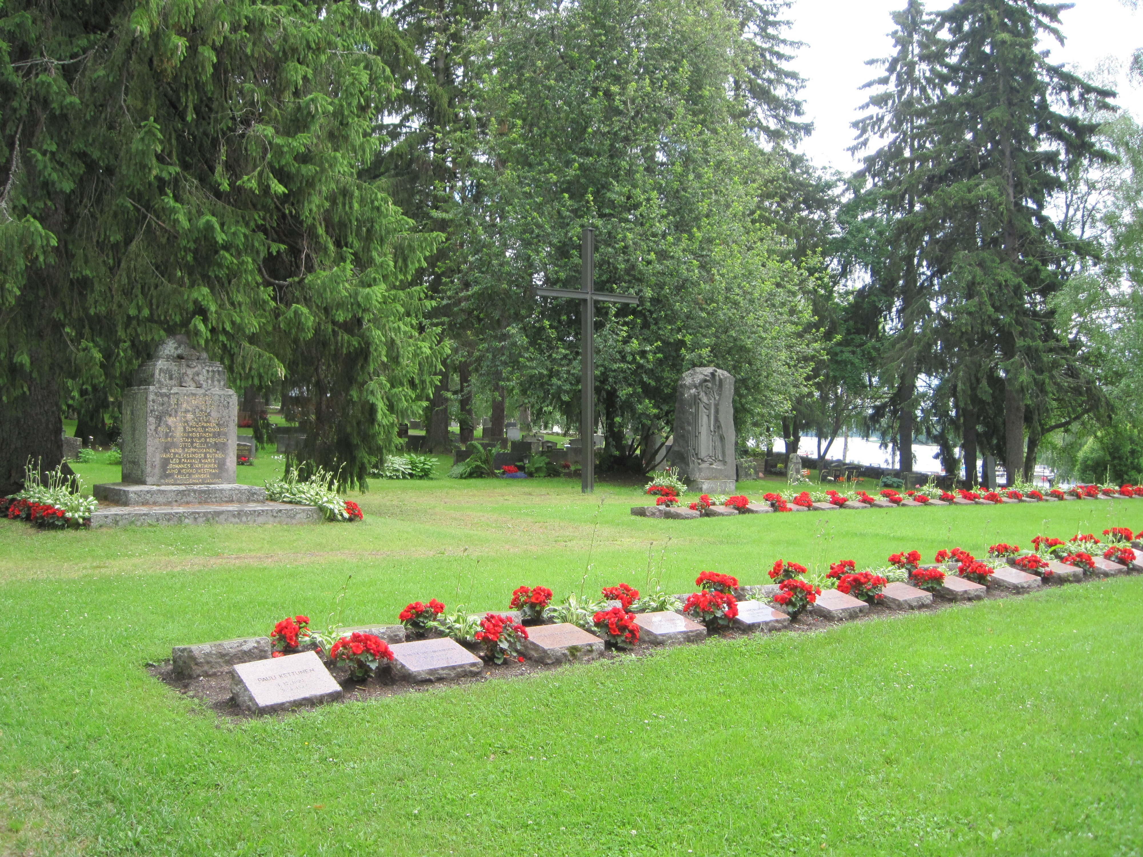 Military cemetary at church in Liperi, Finland